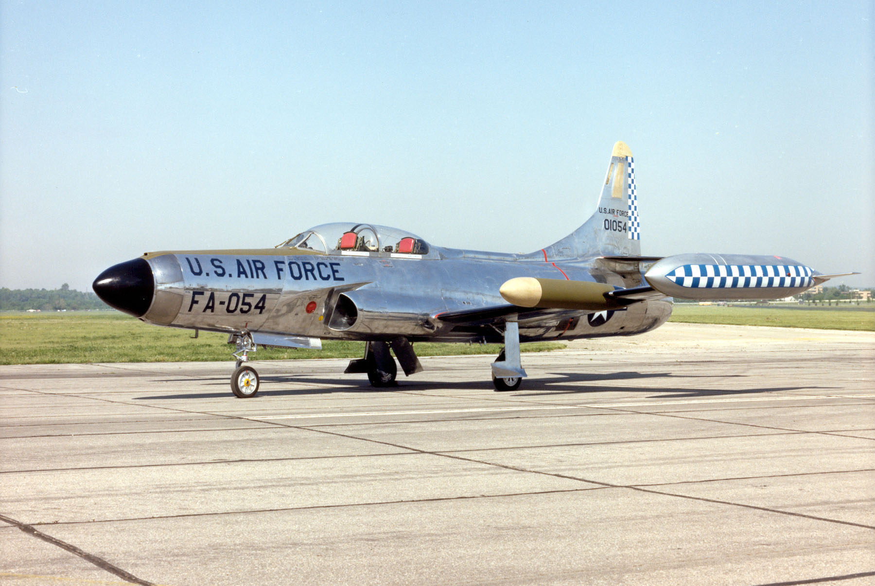 Lockheed F-94C Starfire at the National Museum of the United States Air Force